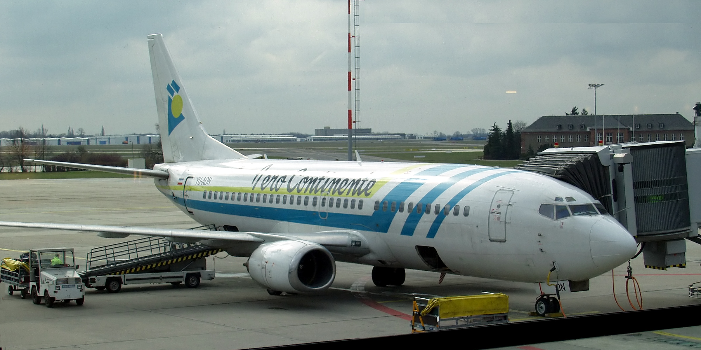 Airplane of Aero Continente, registration YU-AON, in Berlin-Schönefeld